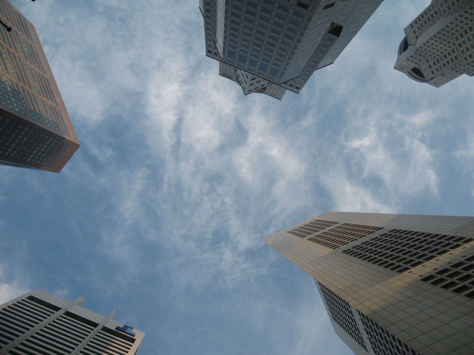 Raffles Place skyscrapers (clockwise from bottom left, Singapore Land Tower, OUB Centre, UOB Plaza Two, UOB Plaza One and Six Battery Road).